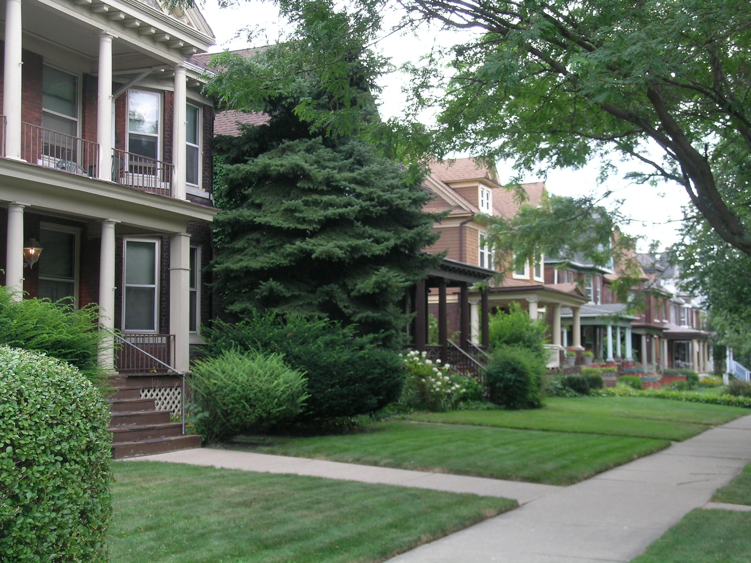 Street scene looking south from the corner of Avery and Willis in Woodbridge